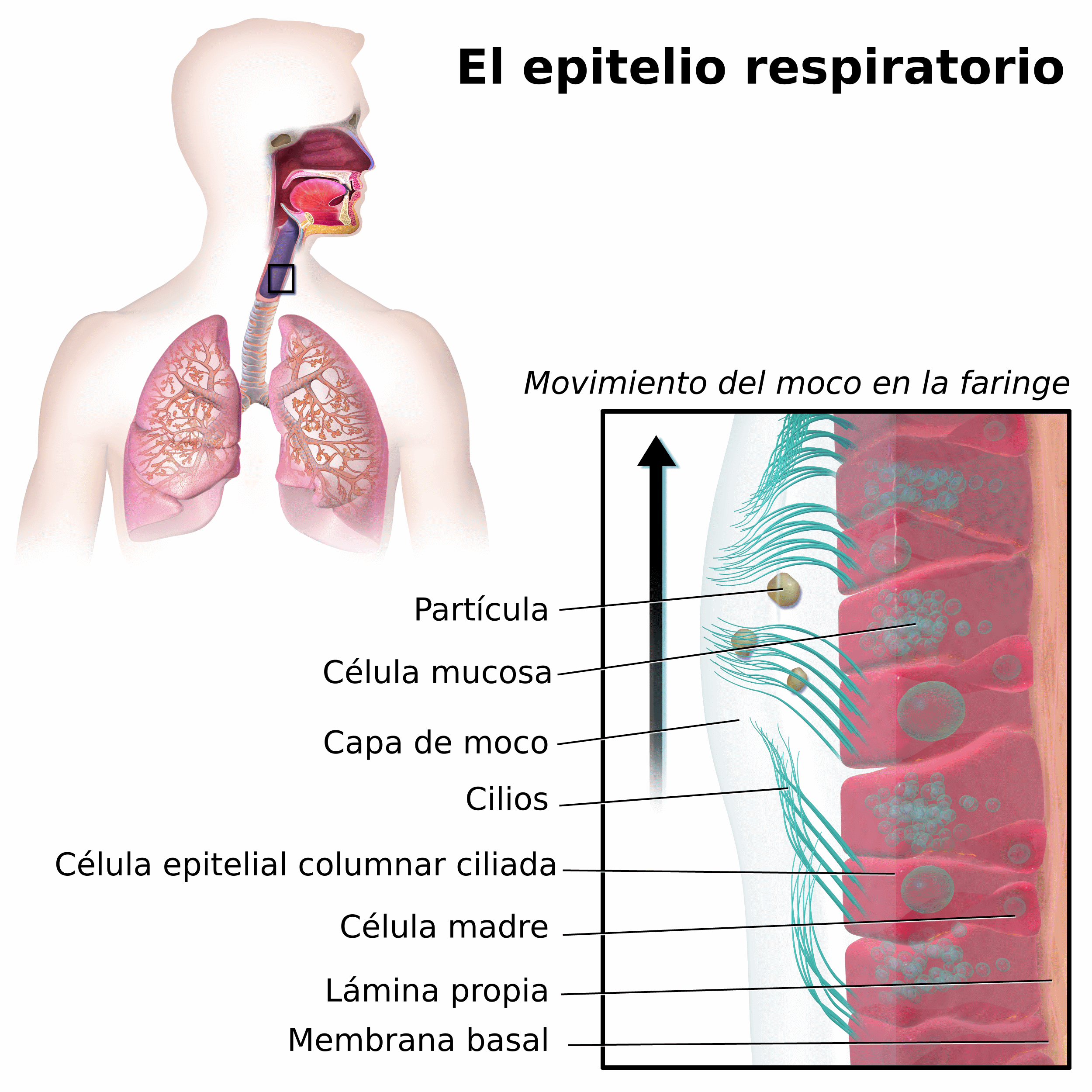 Respiratory Epithelium. See a related animation of this medical topic.